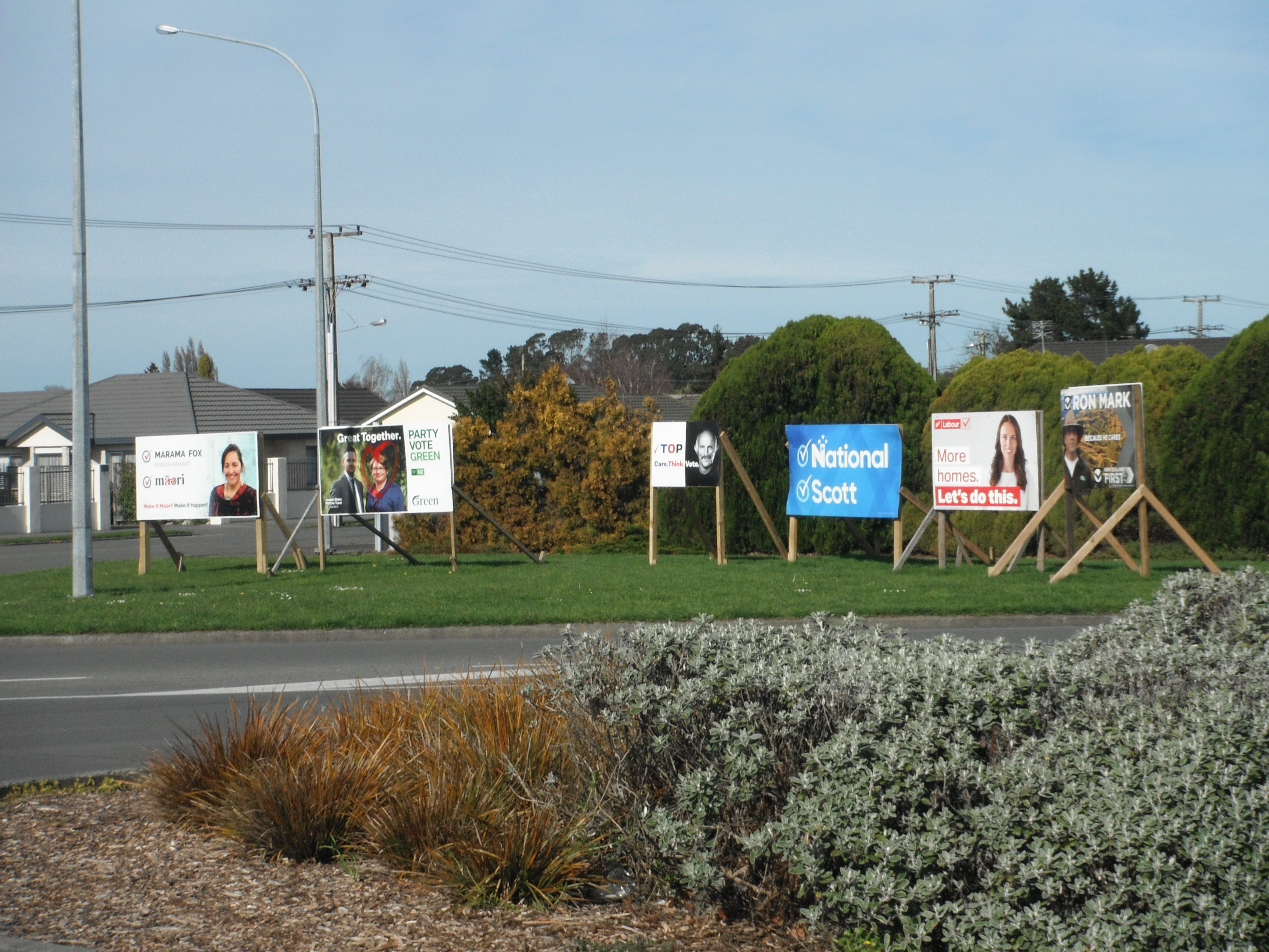 Election hoardings for the New Zealand general election 2017 at the corner of South Road and High Street in Kuripuni, Masterton, New Zealand (Wairarapa general, Ikaroa-Rawhiti Maori). The Green Party billboard has been vandalised, with a red heart drawn around Metiria Turei.